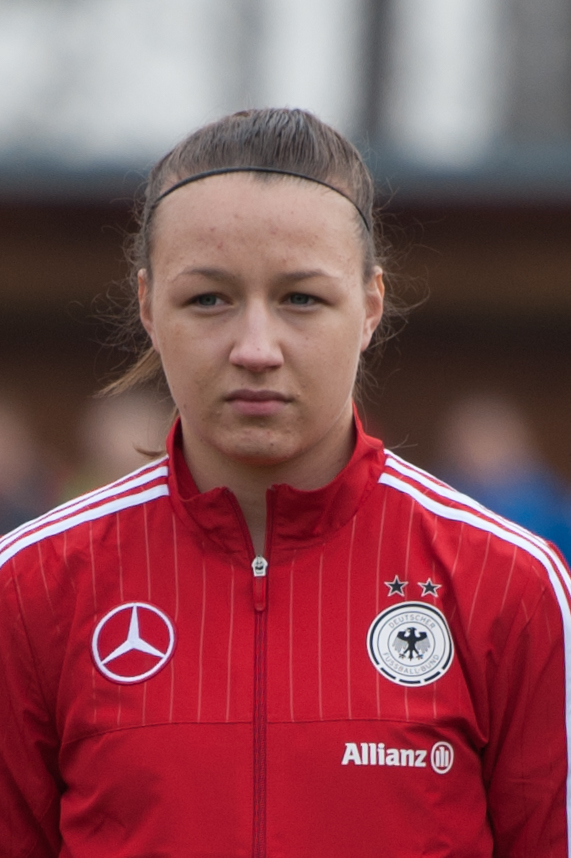 UEFA European Women's U17 Championship elite round Germany vs. Switzerland, 2016-03-19